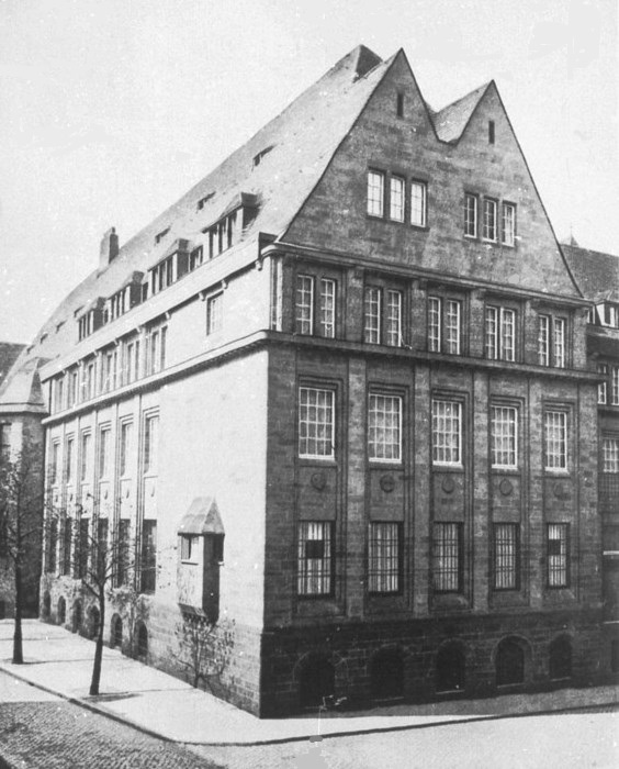 Museum für Ostasiatische Kunst, Köln, (rba_mf702607)